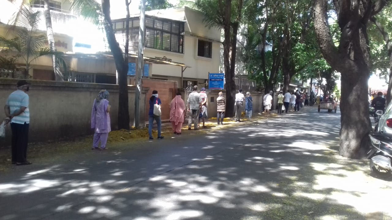 People following social distancing in India during Covid19 pandemic